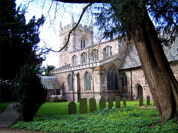 Cossington parish church taken by kev747